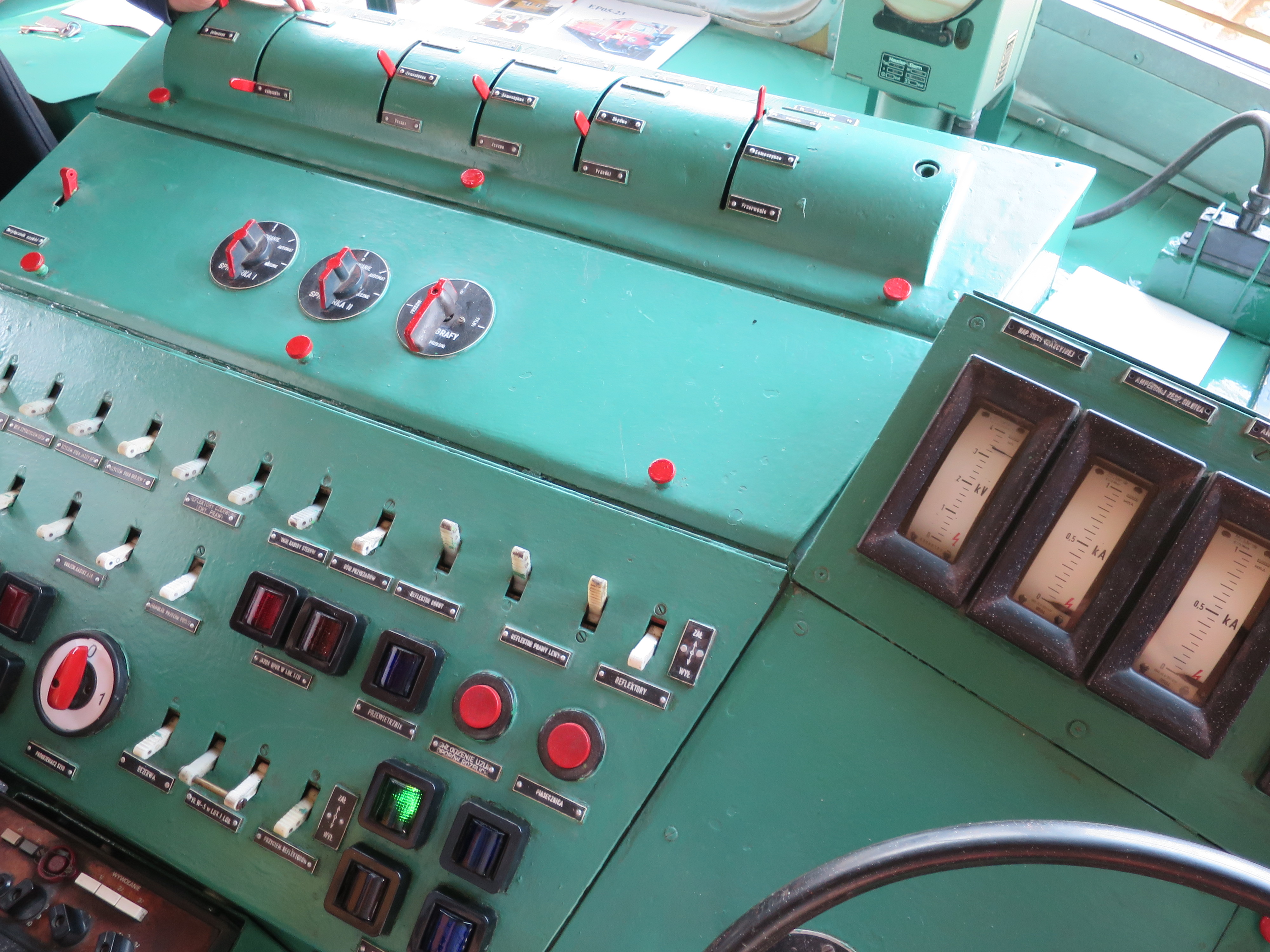 The making of this document was supported by Wikimedia Polska Association, within Wikigrant no. WG 2017-44. EP05-23